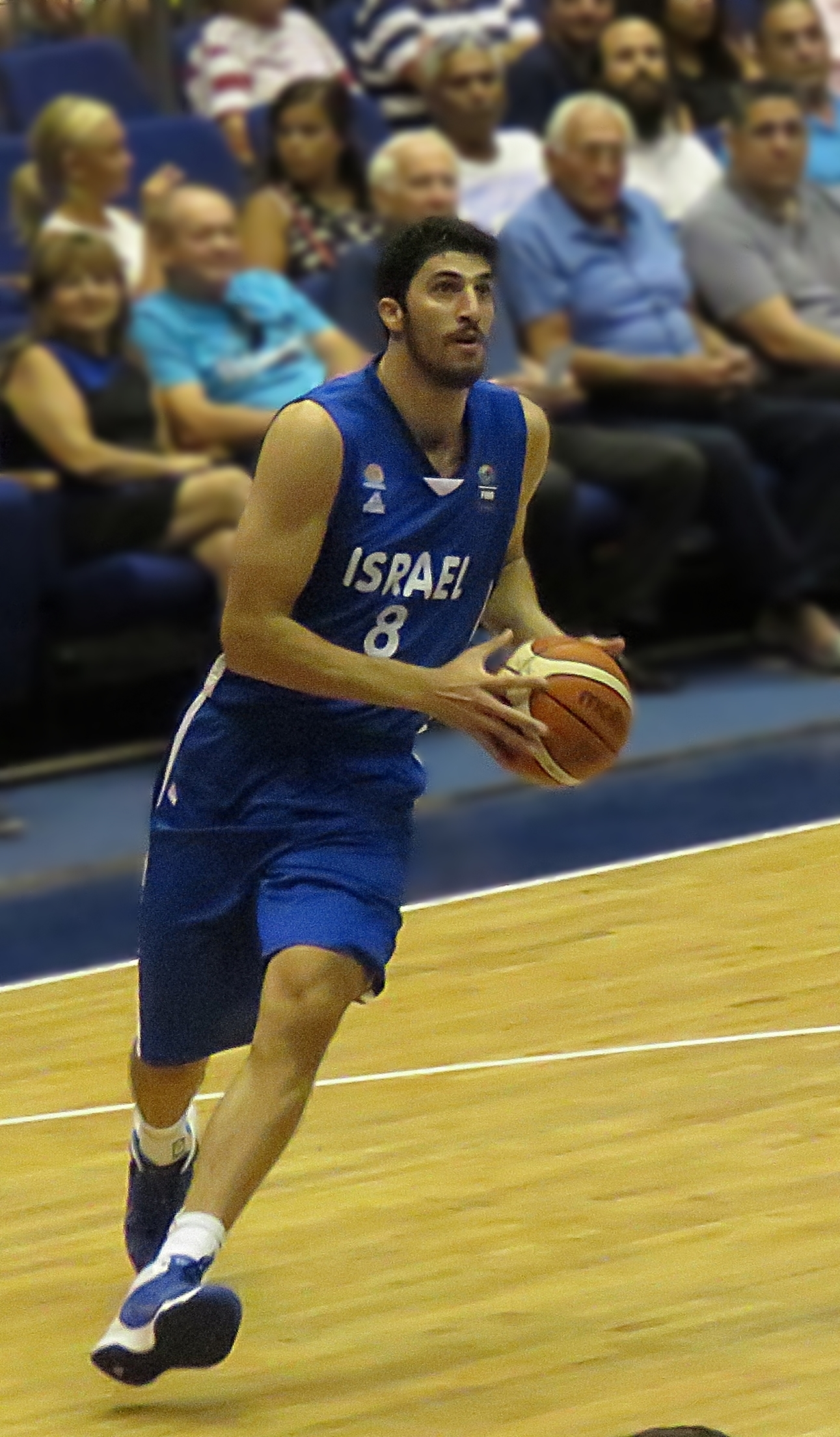 Israel vs. Serbia - August 23, 2015